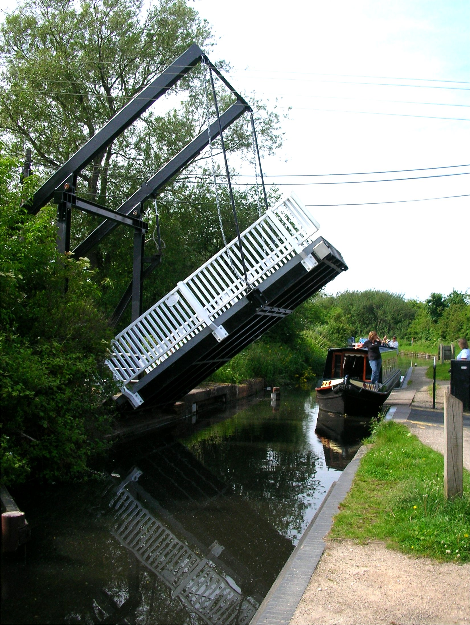 The opened drawbridge (bridge number 8) on the northern branch of the Stratford-upon-Avon Canal at Majors Green, Worcestershire, England. Photographed by me 3 June 2007. Oosoom